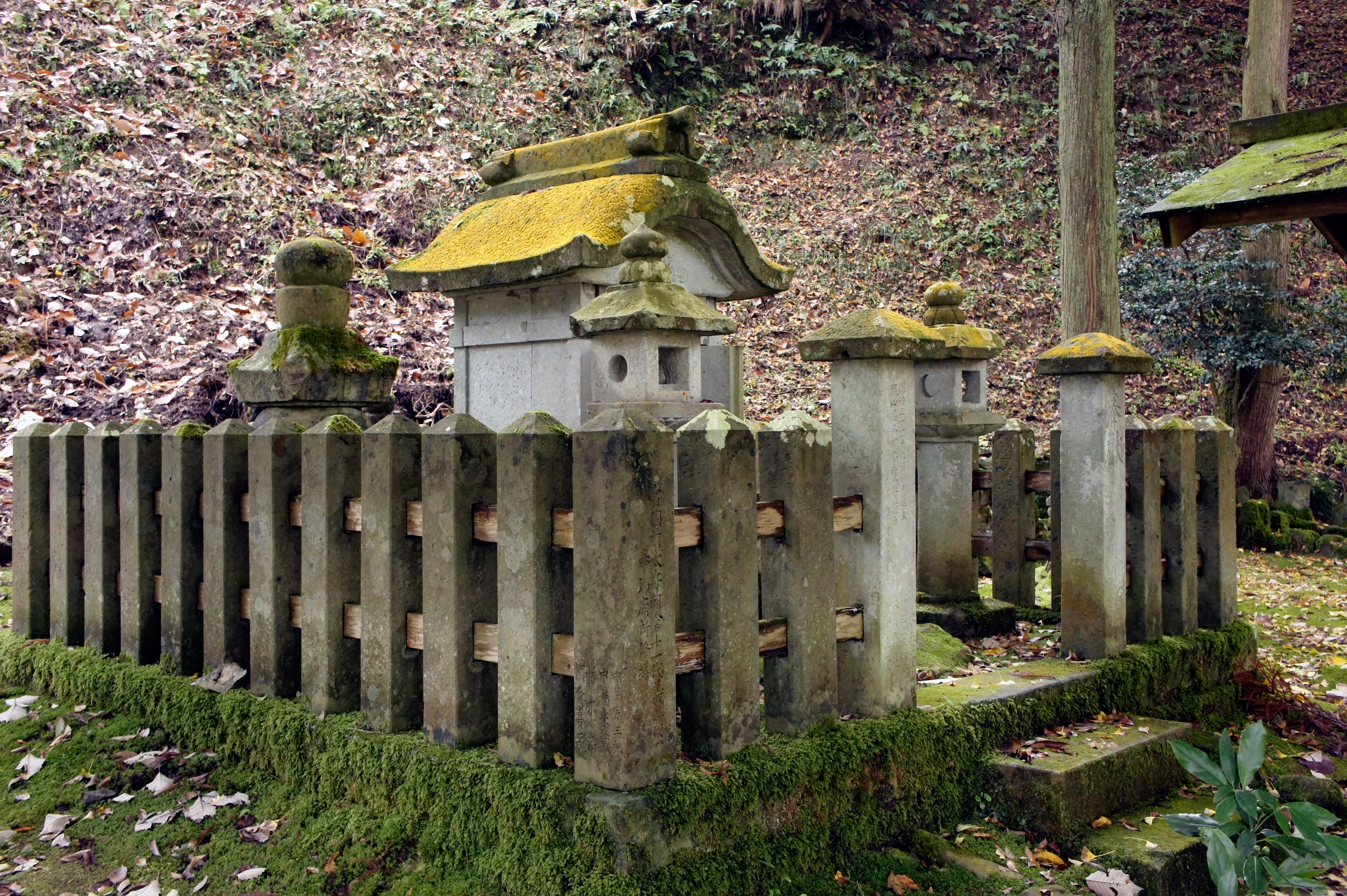 Asakura Yakata of Ichijōdani Asakura Family Historic Ruins in Fukui, Fukui prefecture, Japan. Grave of Asakura Yoshikage.